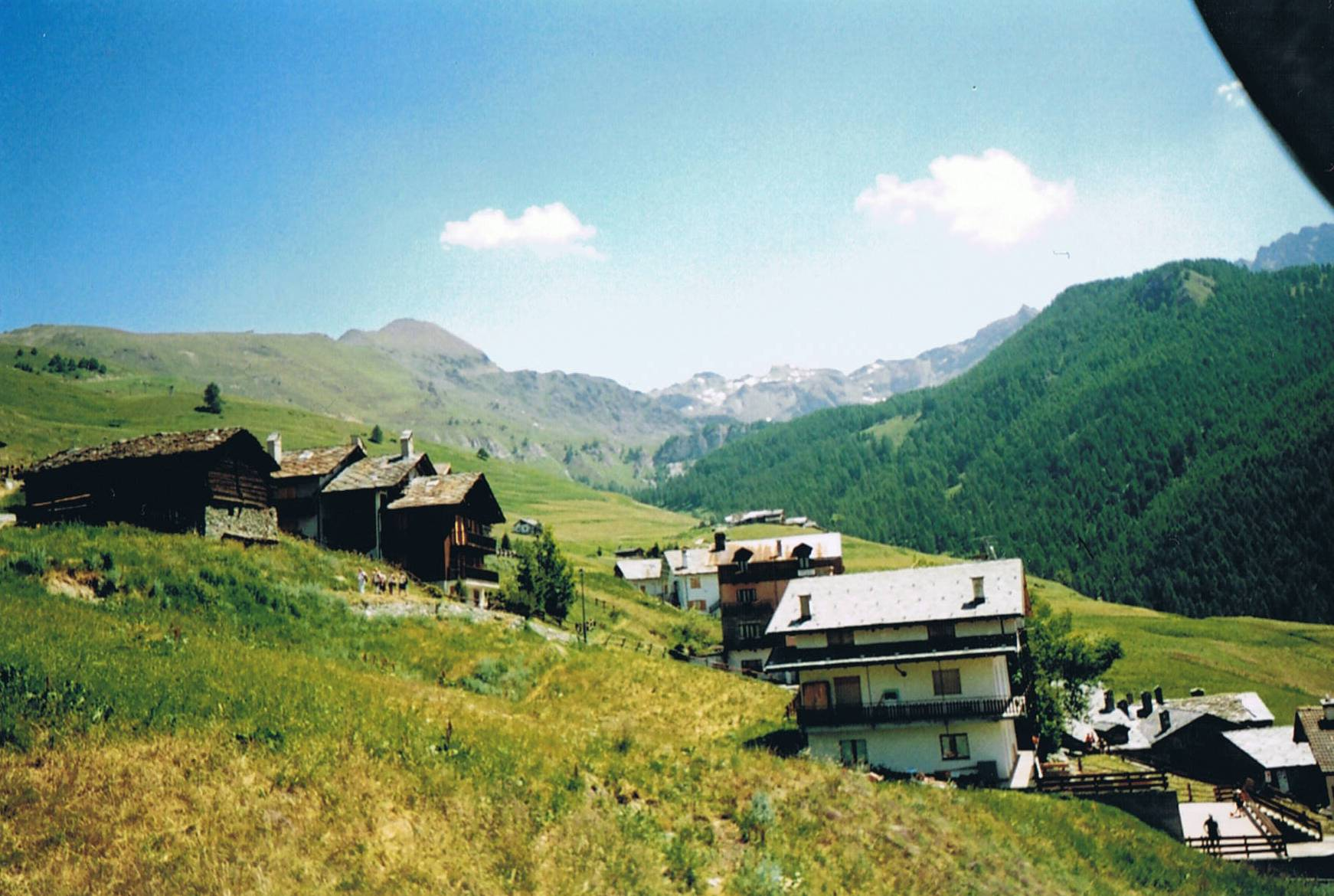 Chamois (Aosta Valley, Italy)